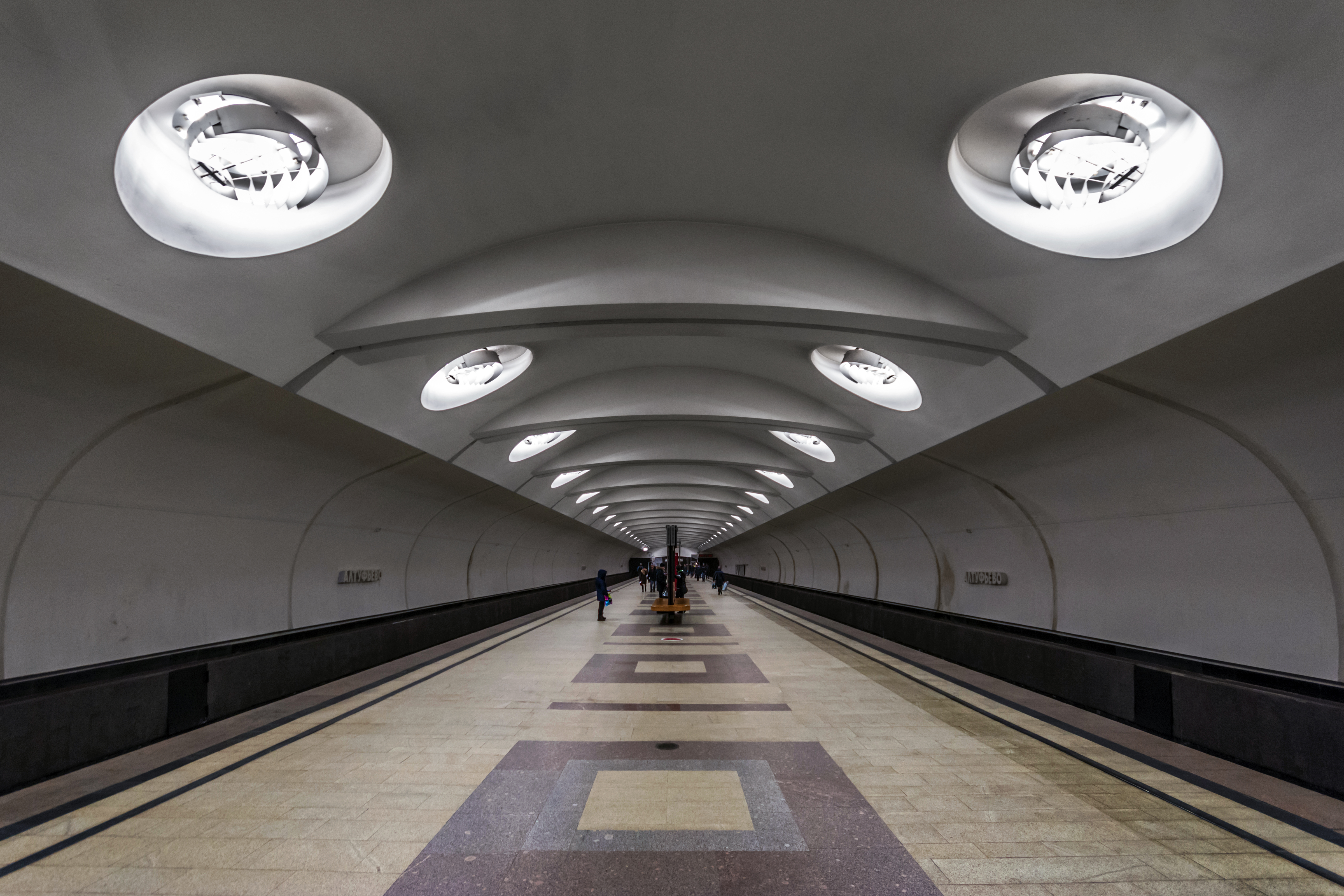 Altufyevo Station of Moscow Subway